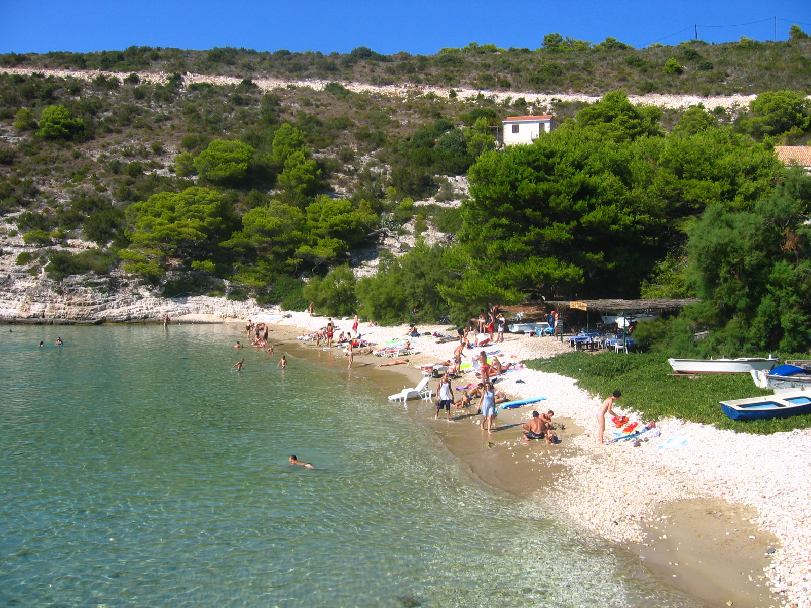 Porat Bay on Biševo Island, Croatia